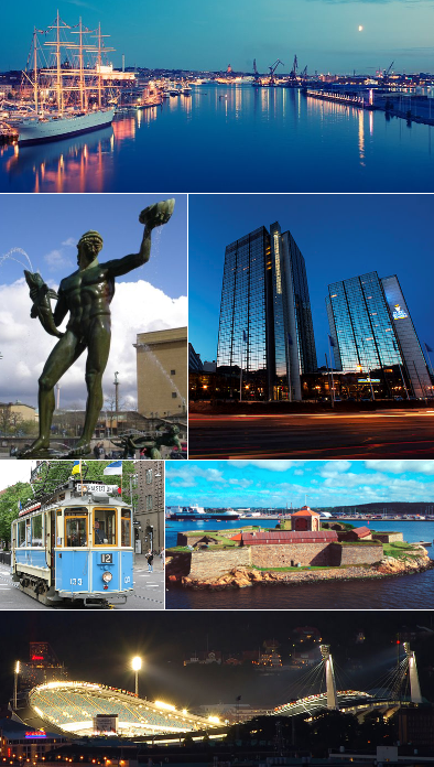 Montage of various Gothenburg images.